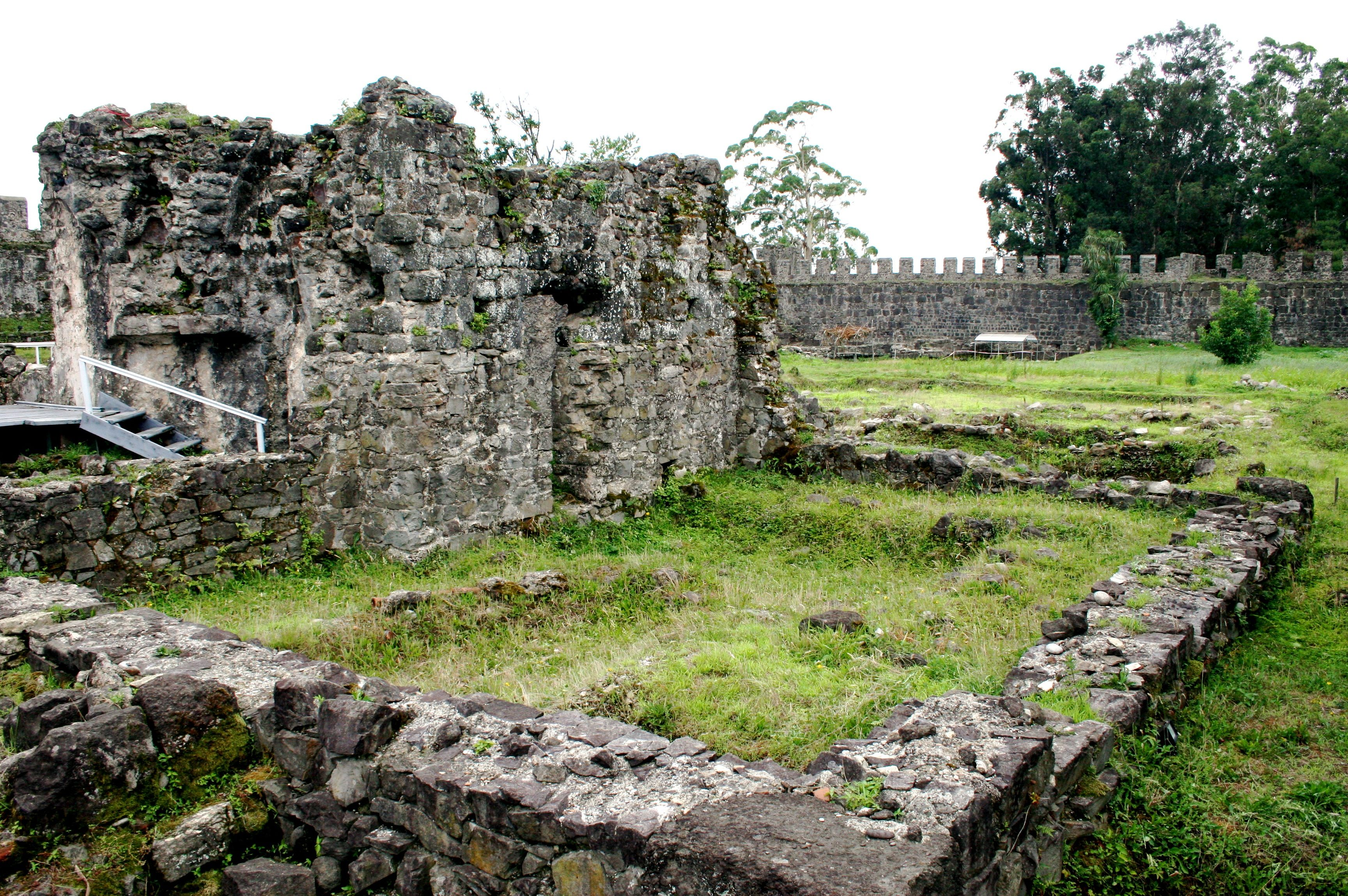 Remains of bath house in Gonio Castle, Adjara, Georgia